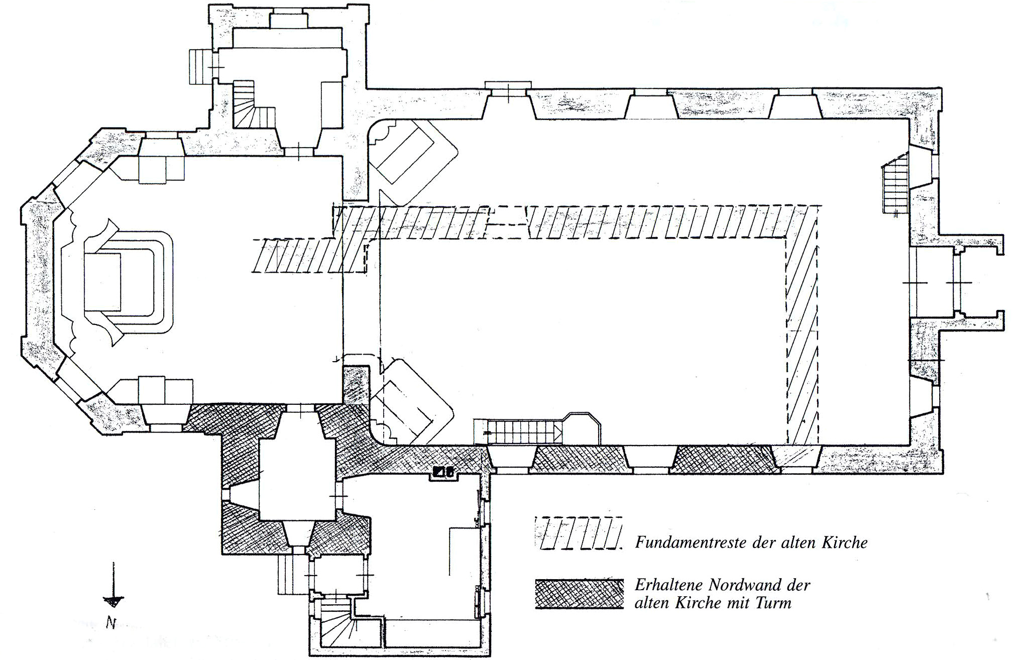 ground map of the parish church St. Pankratius in March-Holzhausen, Badenia, Germany